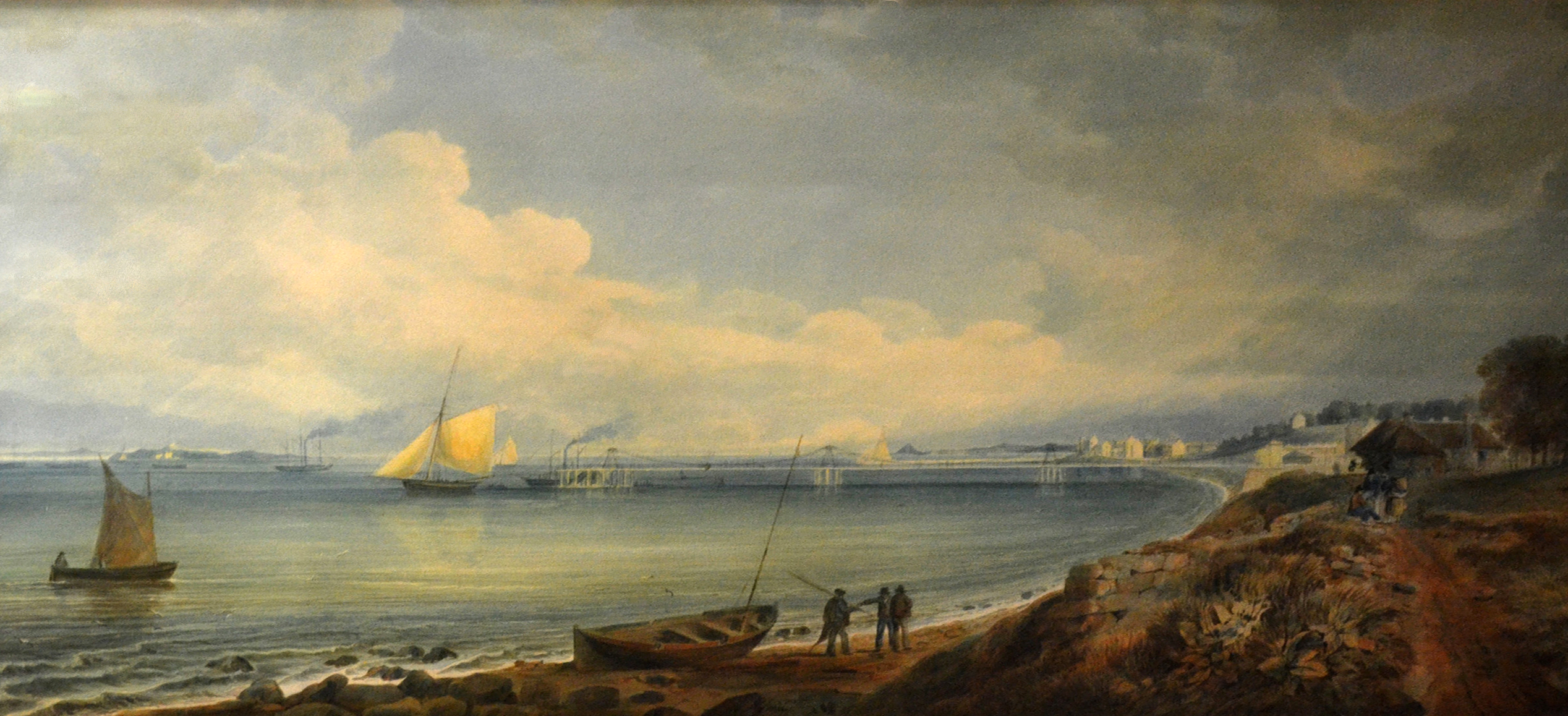 A watercolour painting of the Trinity Chain Pier, near Edinburgh.